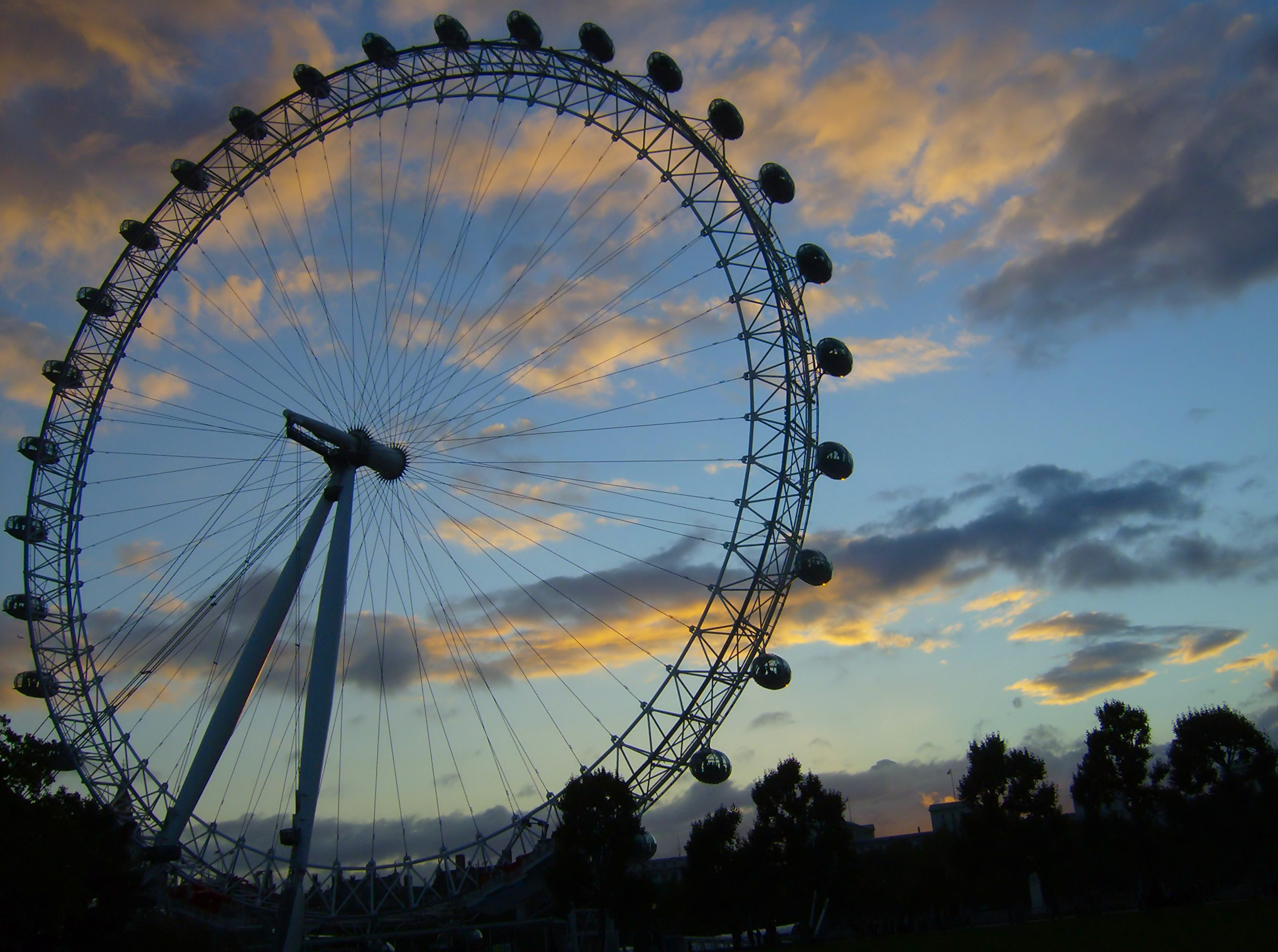 The London Eye in London, taken at sunset.